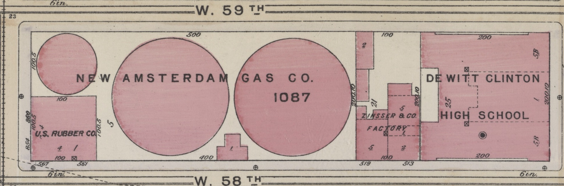 Plate 81 from: Bromley, George W. and Walter S. Atlas of the Borough of Manhattan City of New York. Desk and library edition. (New York: G. W. Bromley and Co., 1916) FOR KEY TO MAP SYMBOLS, CLICK HERE.